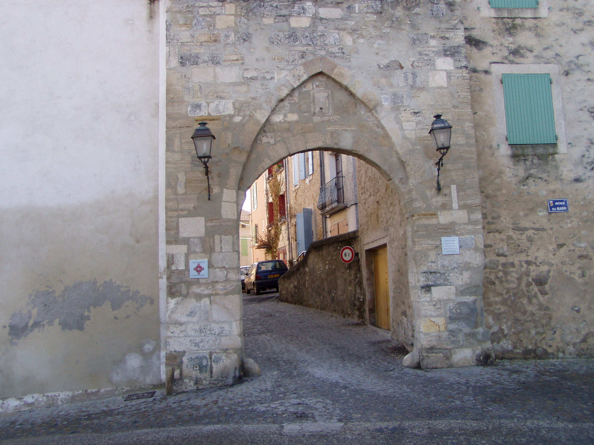 Door of Pierrevert